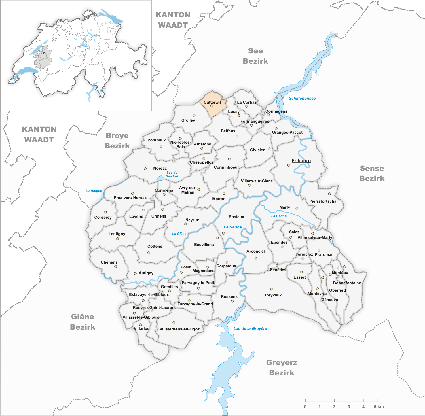 Municipality Cutterwil Artist: Tschubby